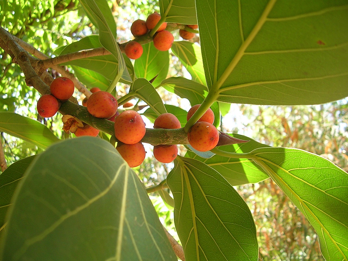 Ficus benghalensis shoot from Karnataka India